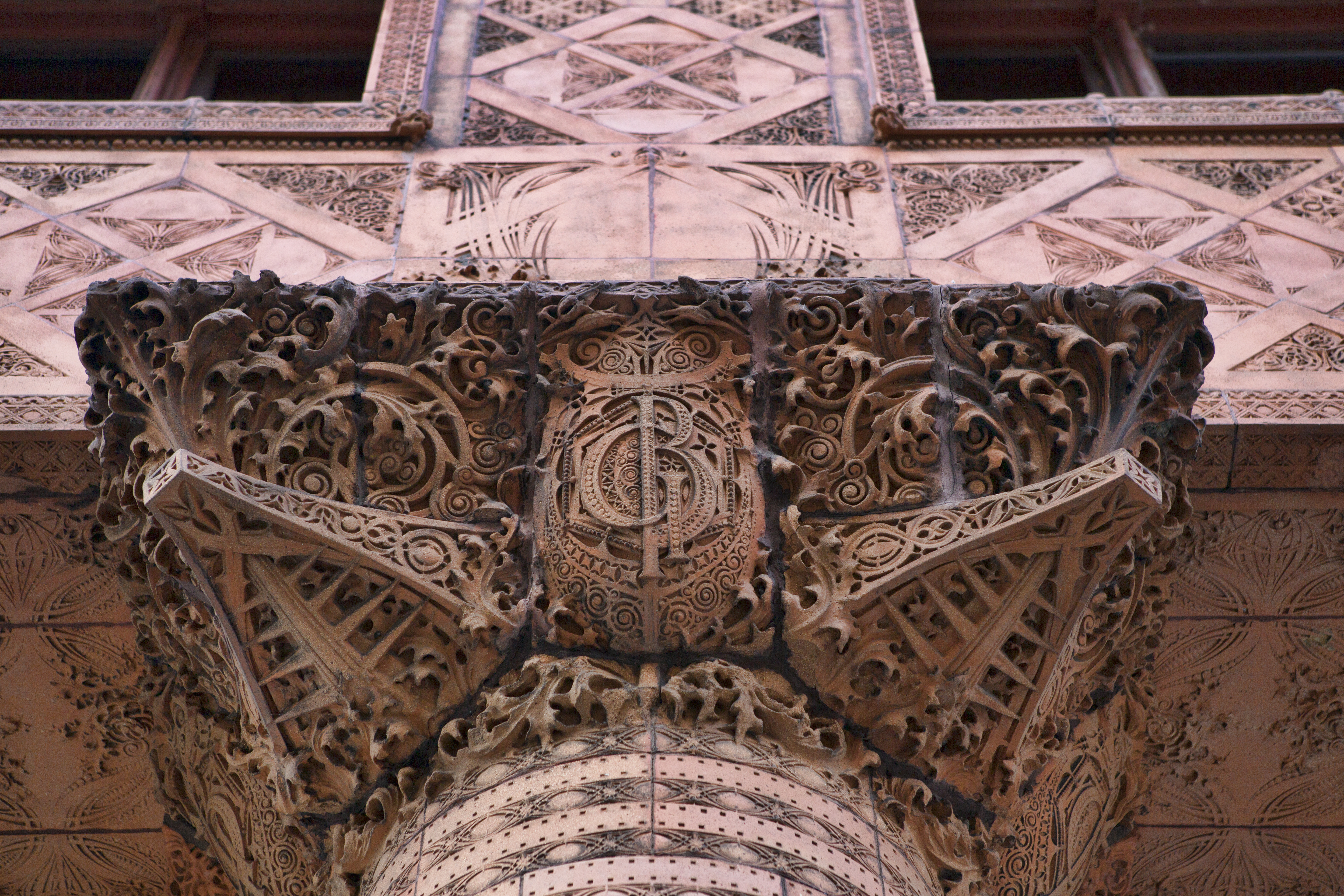 Architectural detail in the Prudential Guaranty Building, in downtown Buffalo, New York.